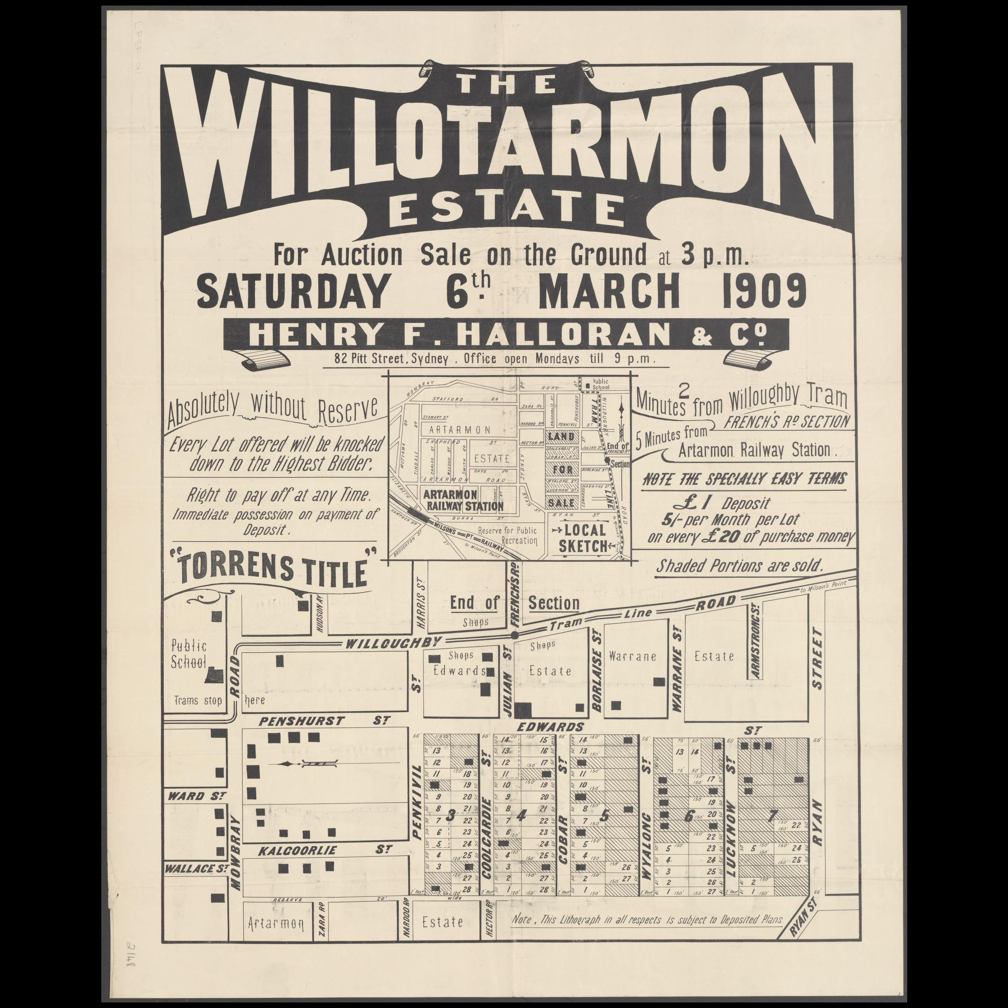 Willotarmon estate promotional pamphlet for land between Edwards Street, Penkivil St and Ryan Street Atarmon Sydney